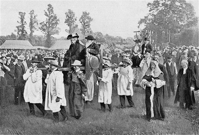 The Dunmow flitch of bacon award festivities in 1905. The winning couples that year were the Rev. and Mrs Jenkins and Mr. and Mrs. Noakes. Photograph published in the French weekly L'Illustration in September 1905.